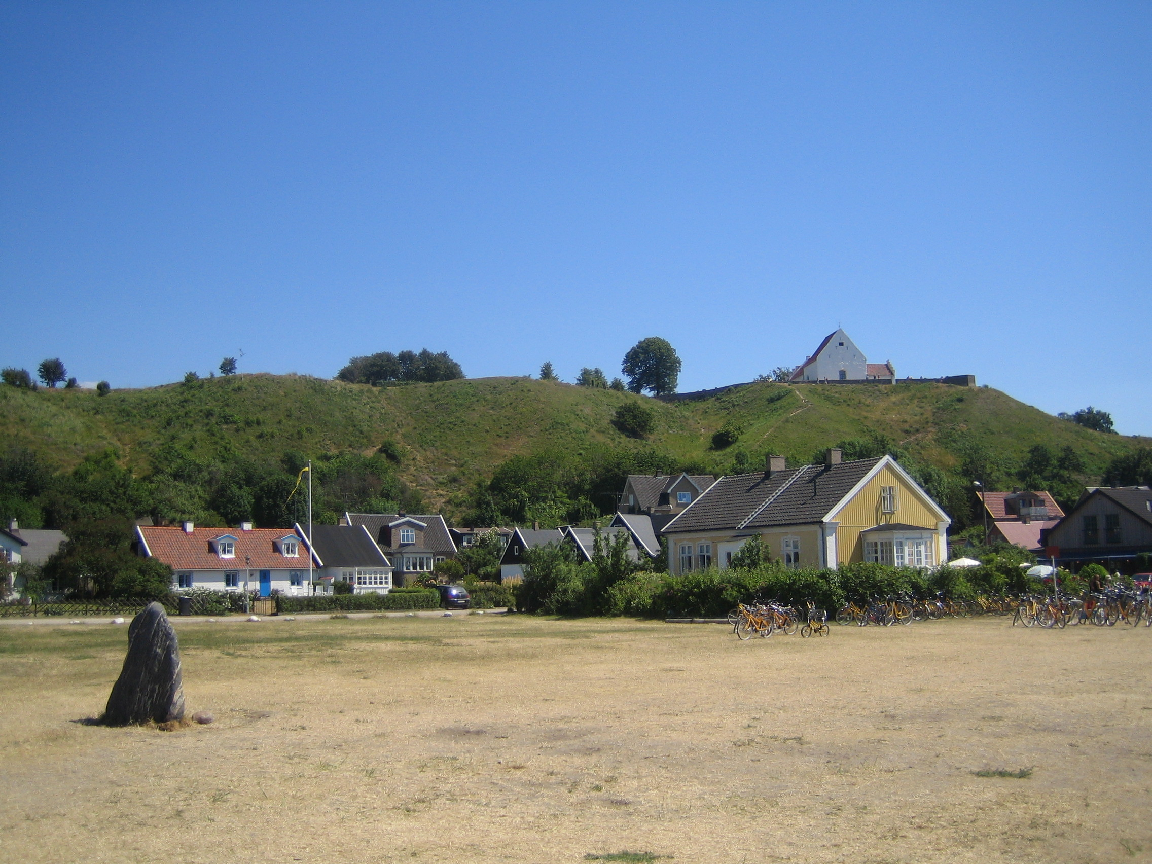 Kyrkbacken with the Saint Ibb's Church, in Ven.